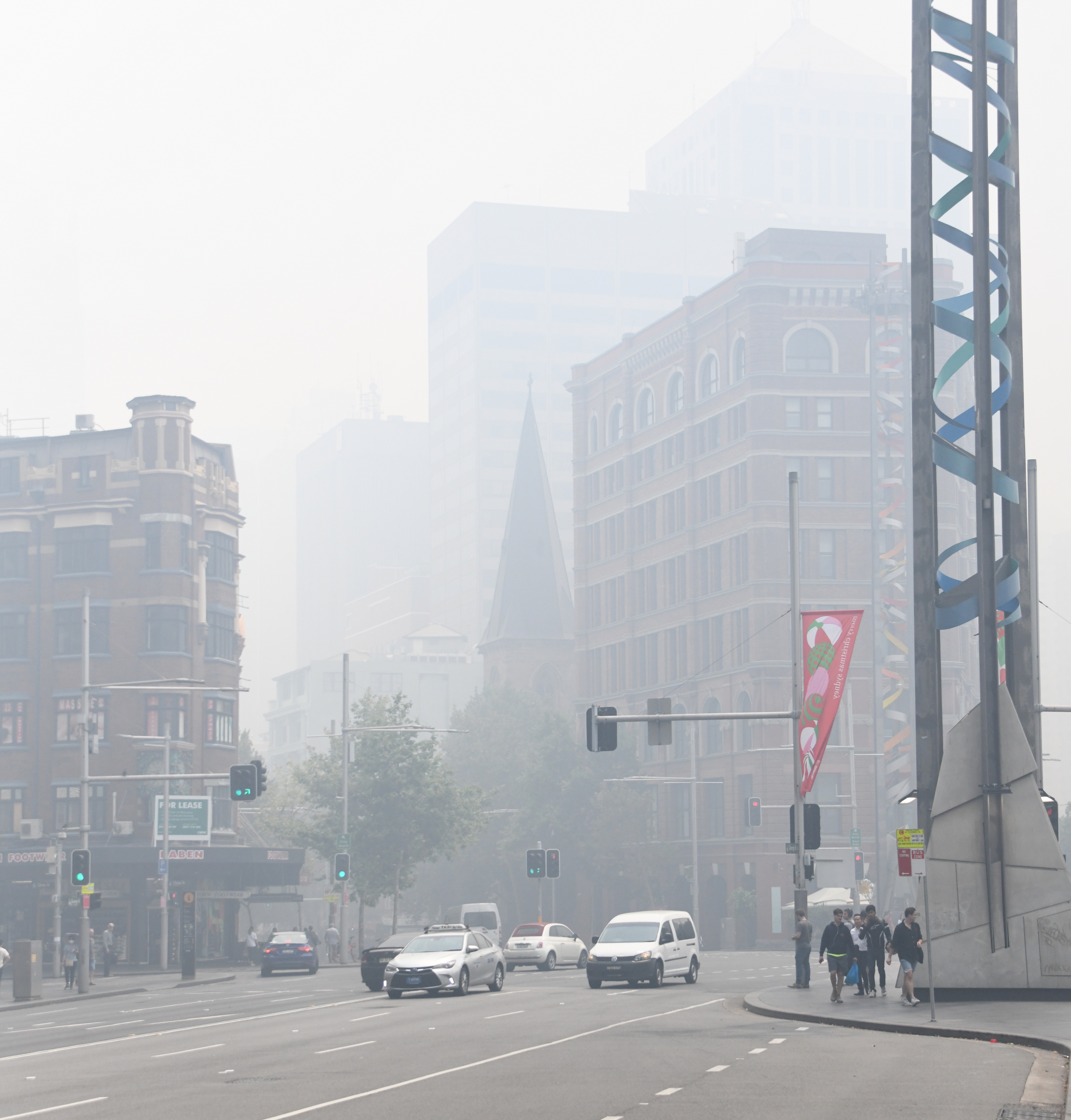 Smoke haze in Sydney, caused by bushfires in Blue Mountains